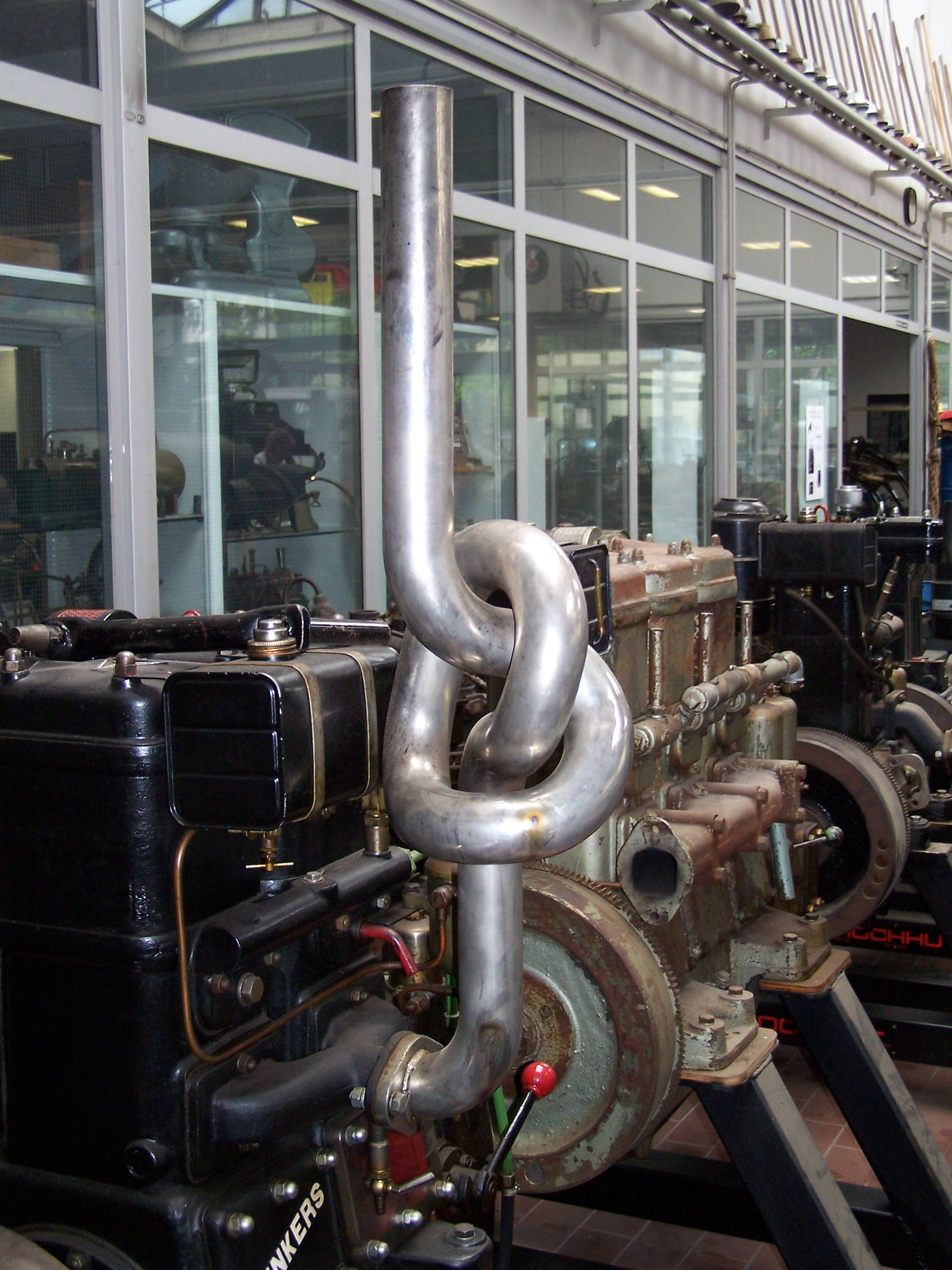 Two Junkers opposed-piston engines of the Technical Collection Hochhut in Frankfurt am Main: a model 2 HK 65 with a very special exhaust and a 3 HK 65 in the background